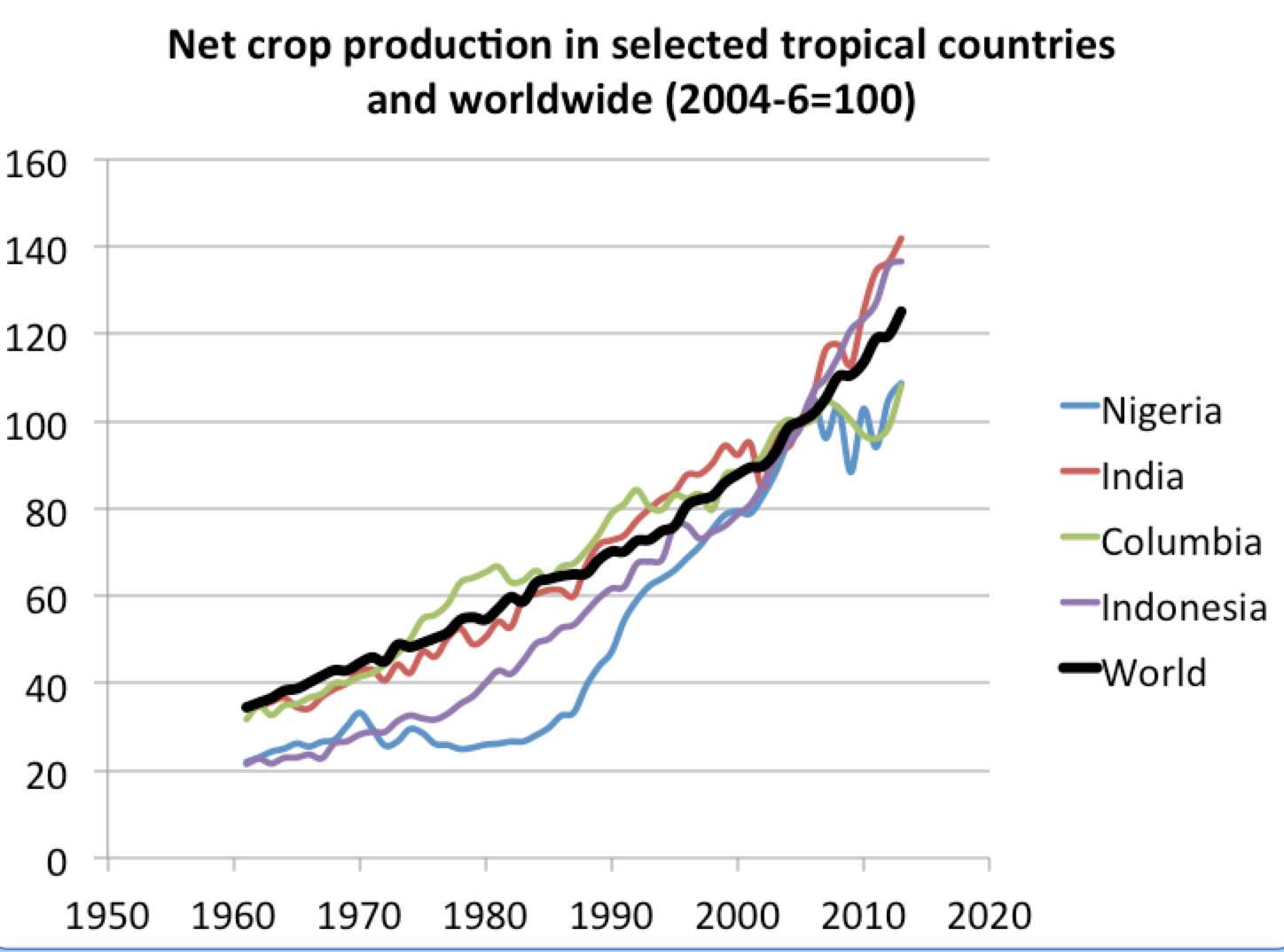 Graph of net crop production worldwide and in selected tropical countries. Raw data from the United Nations. [1]